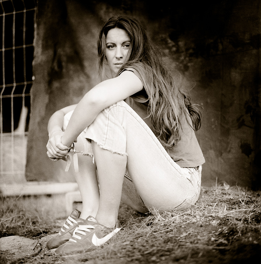 rapper Cora E, SPLASH festival 2000